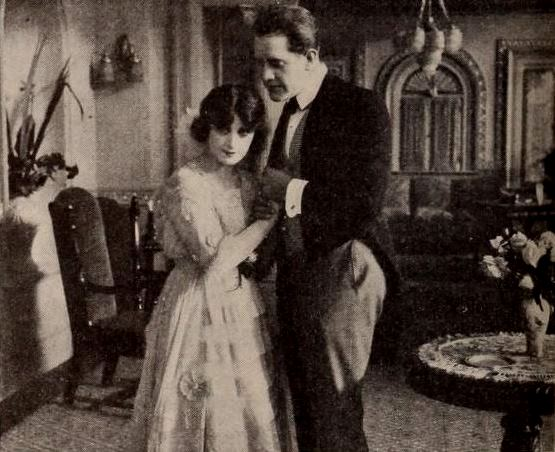 Still from the American comedy film Jilted Janet (1918) with Margarita Fischer and Jack Mower, on page 24 of the February 16, 1918 Exhibitors Herald.